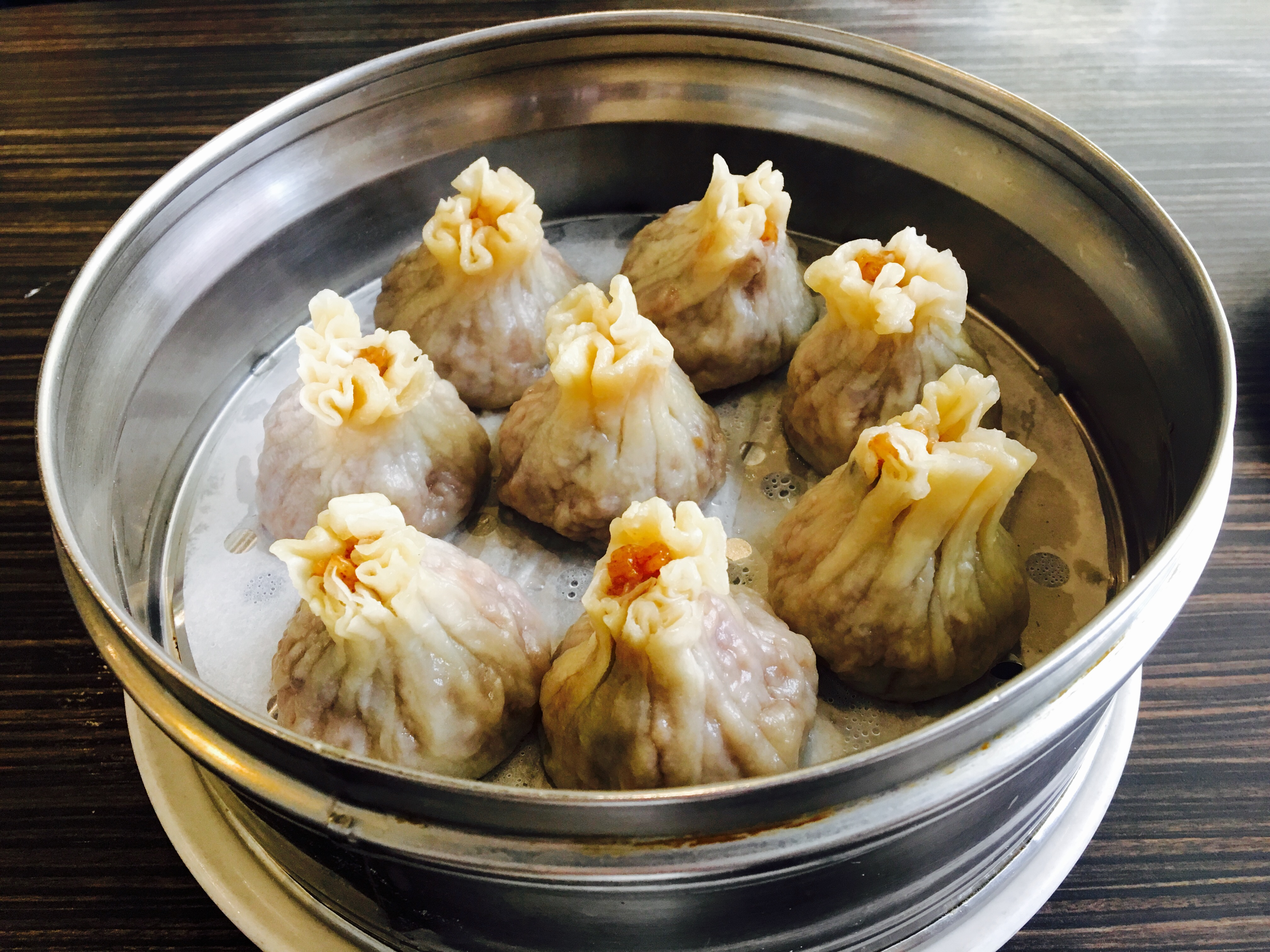 Shao Mei